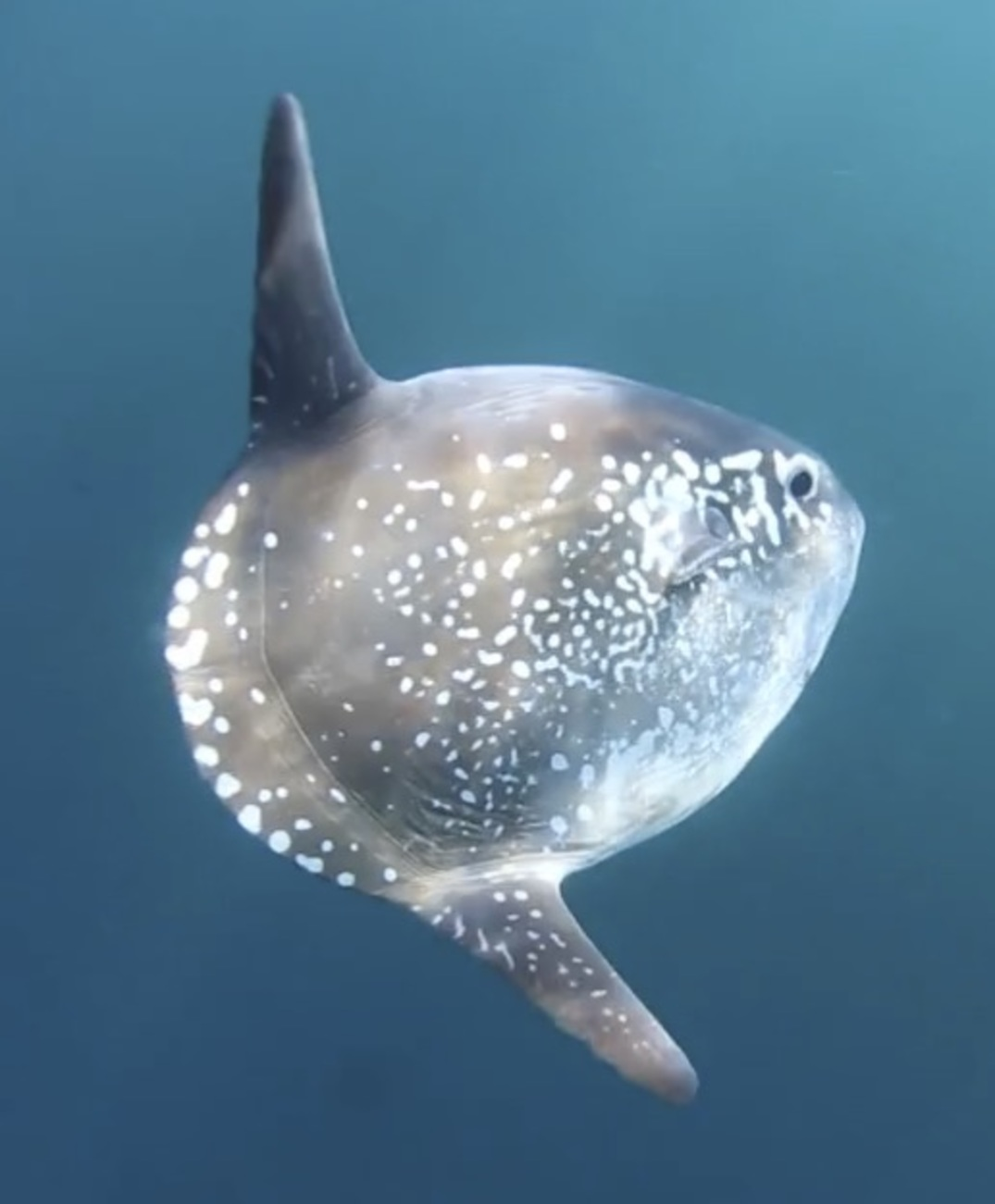 Mola Tecta, image taken in Atacama, Chile